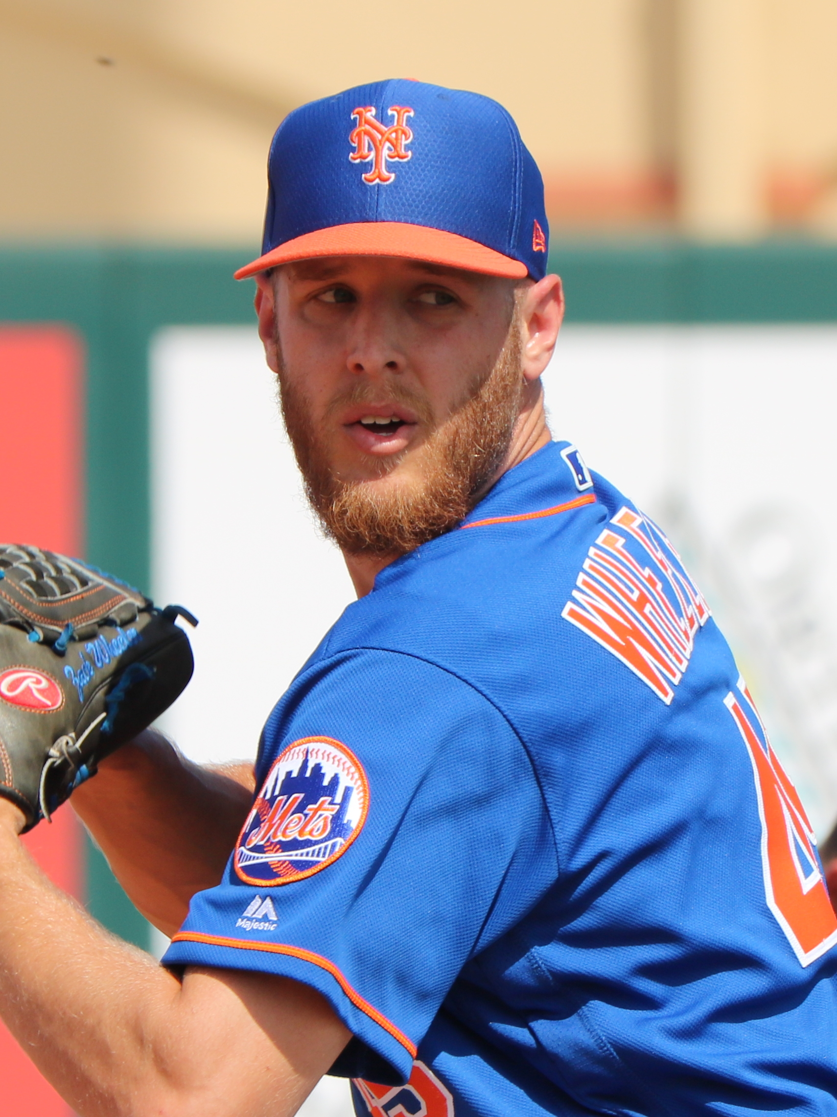 Zack Wheeler warming up, March 3, 2019